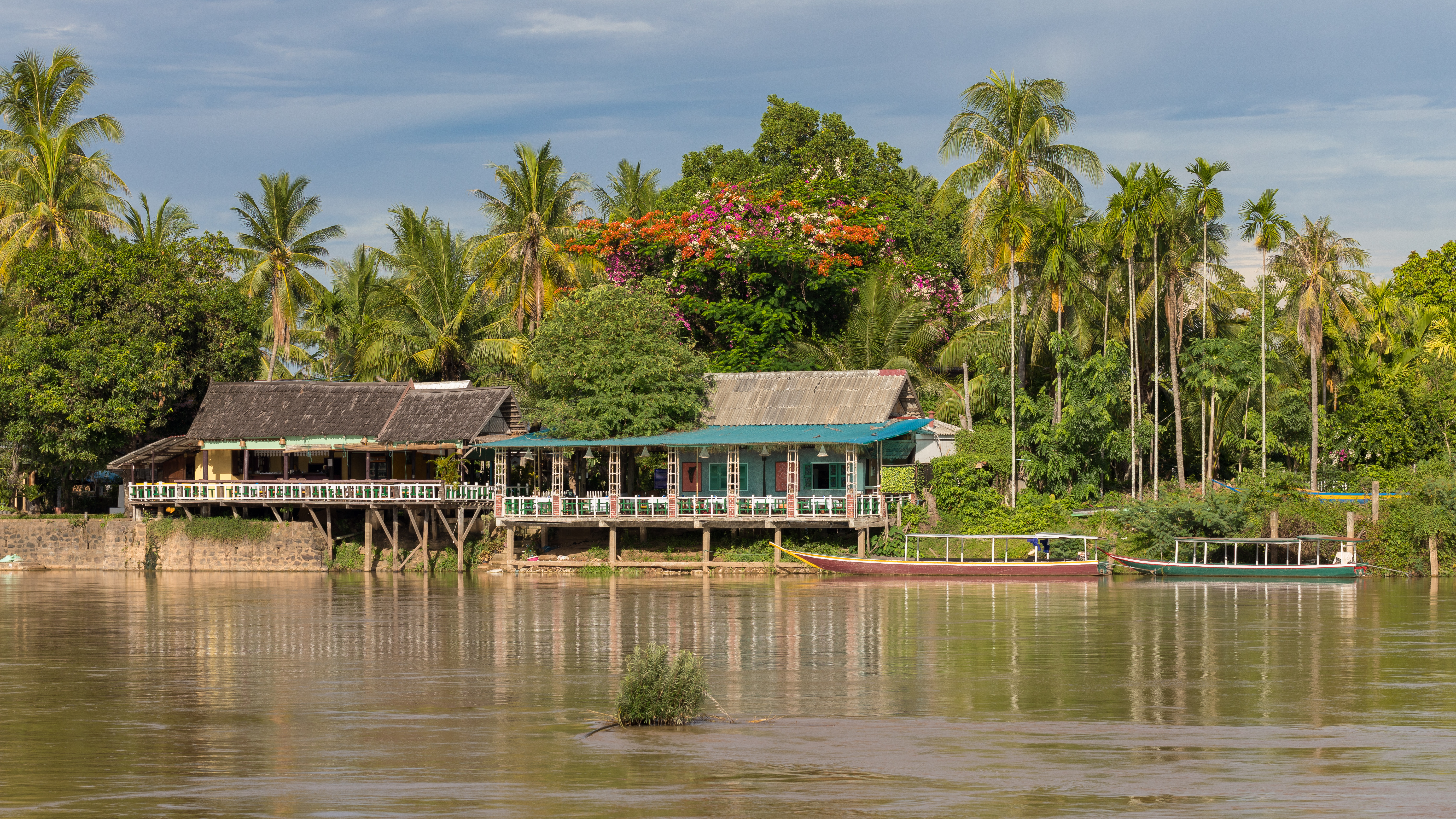 River bank of the island of Don Khon with stilt wooden houses and pirogues, seen from Don Det (Si Phan Don, Laos).